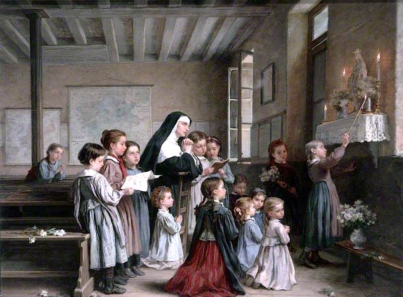 Dargelas: Mornign prayer